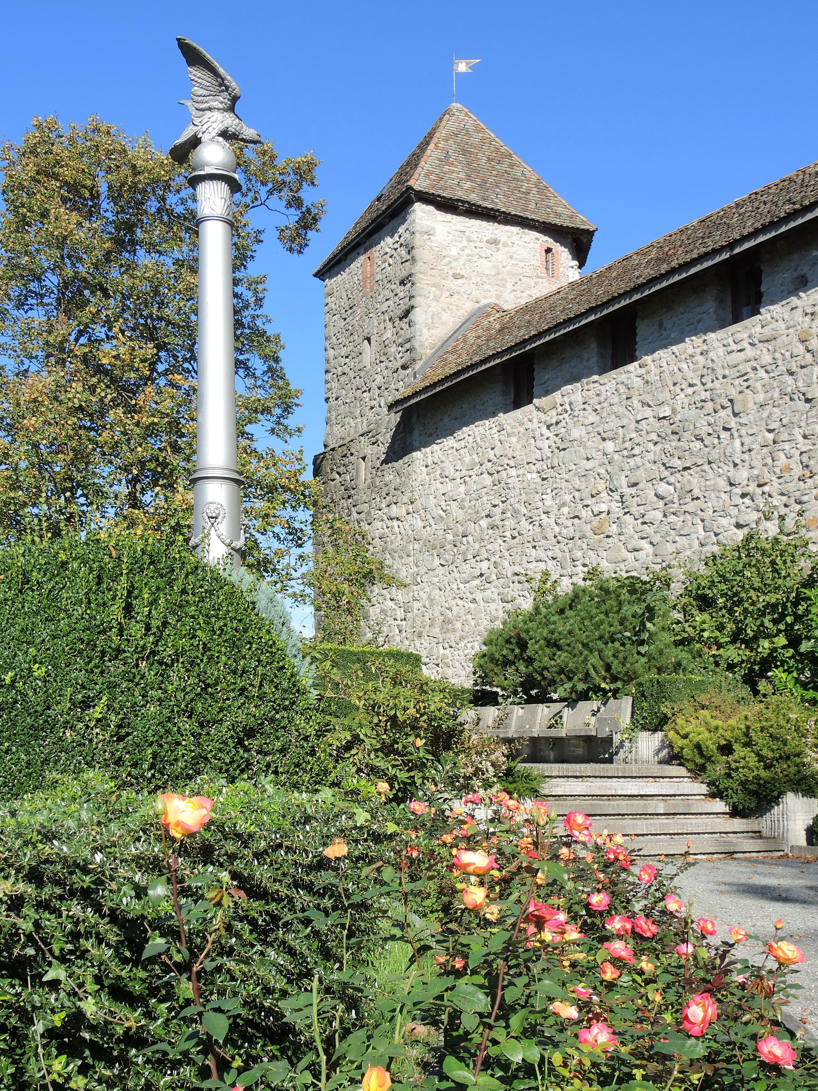 Polnische Freiheitssäule (Polish freedom column) located on the Lindenhof hill at the eastern side of the Schloss (castle) in Rapperswil (Switzerland)